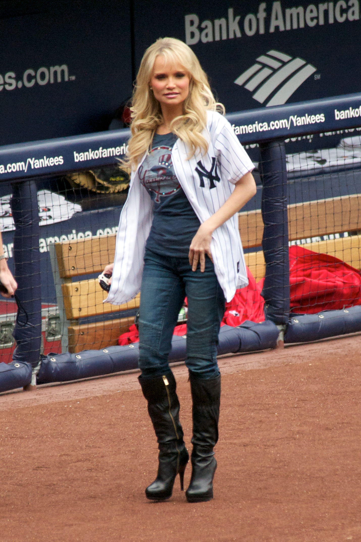 Kristin Chenoweth sang the U.S. national anthem at Yankee Stadium